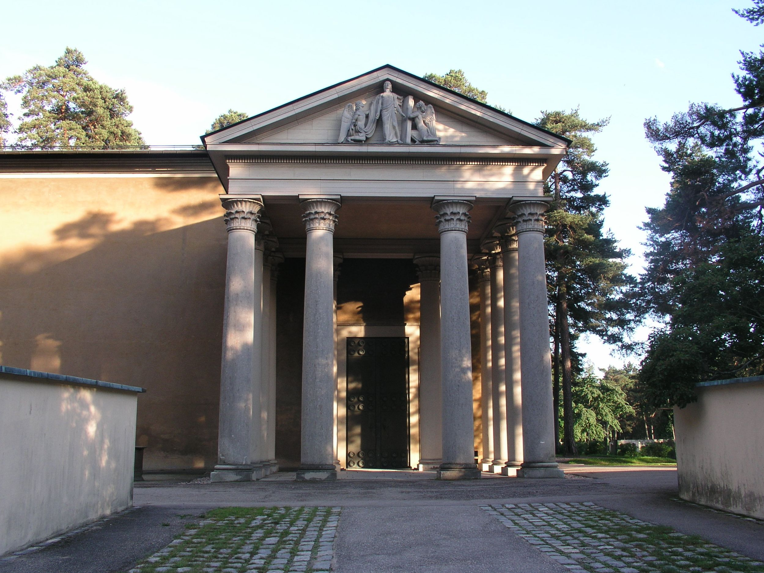 Skogskyrkogården, Uppståndelsekapellet.